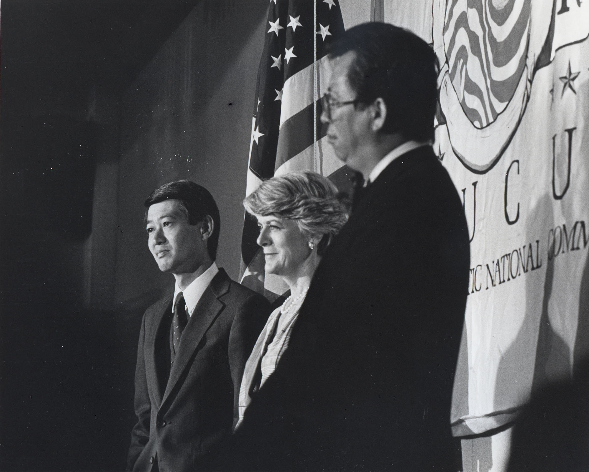 Vice Presidential candidate Geraldine Ferraro at the 1984 Democratic National Convention in San Francisco, California stands with Bob Matsui and Tom Hsieh. Photograph by Nancy Wong